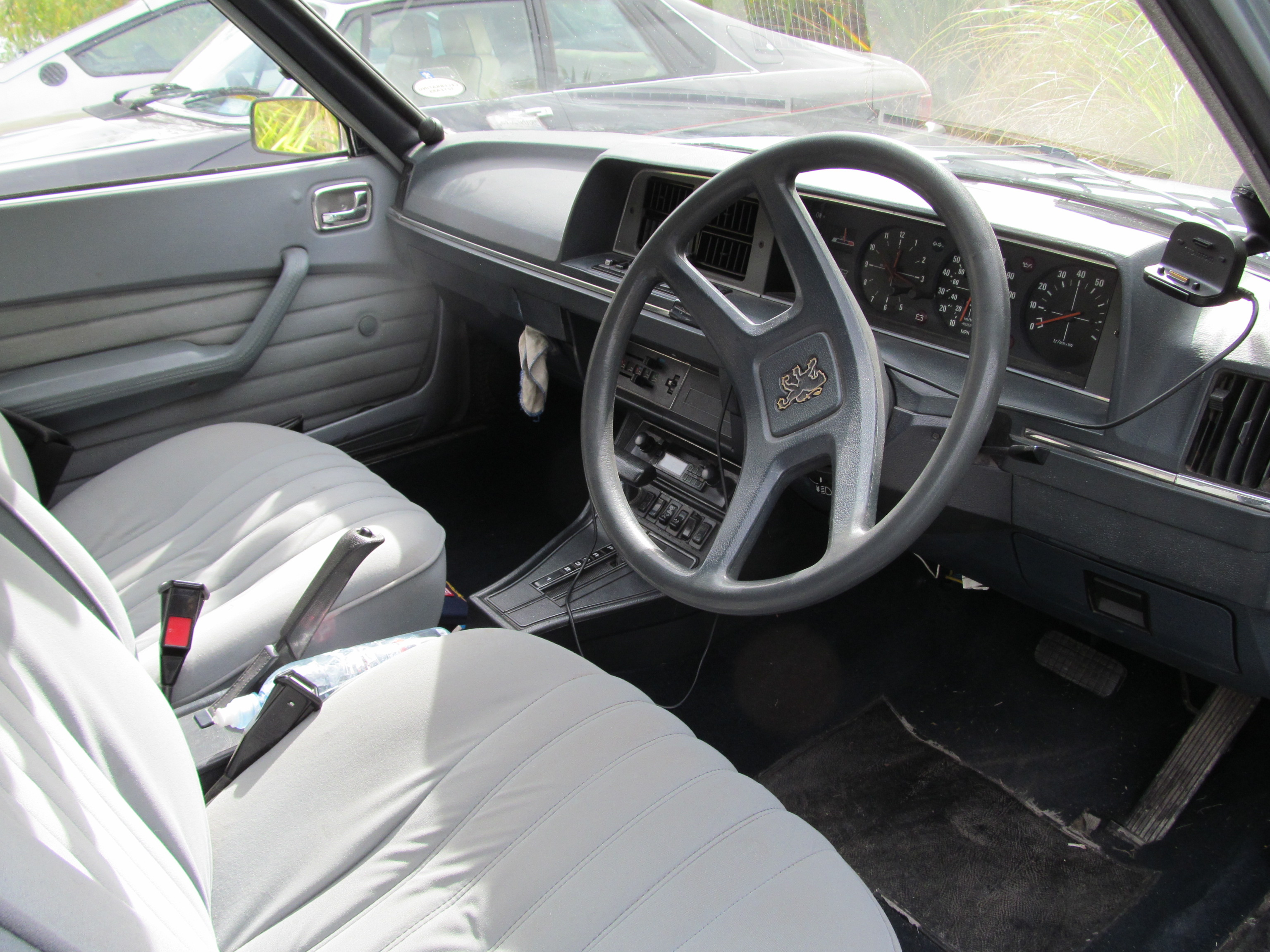 The interior of the 604. I know French car seats are extremely comfortable as we have a Laguna, but these were like upright beds. They hold their heat on a hot day like today too...